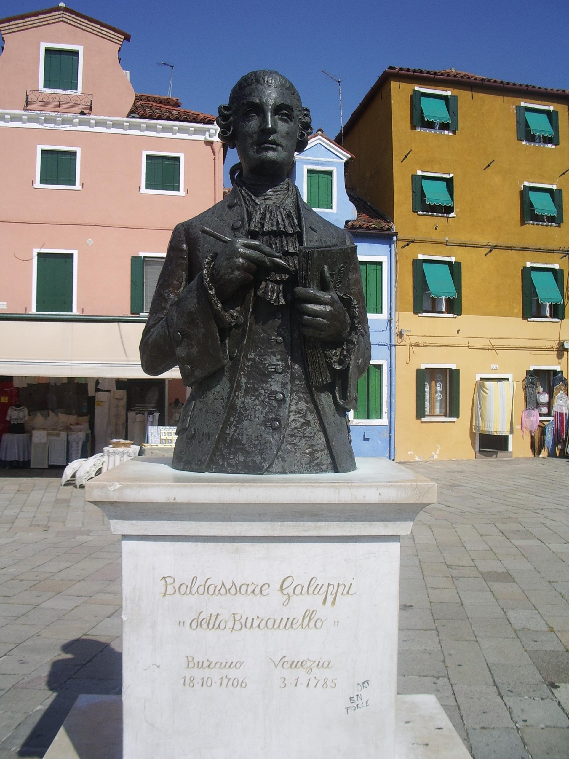 Statue of Baldassare Galuppi in the main square of Burano